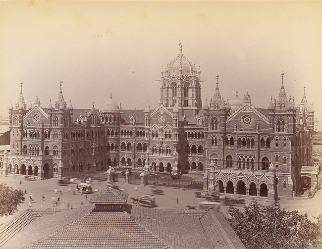 Photograph of the Victoria Terminus, Bombay. Albumen silver print from glass negative.